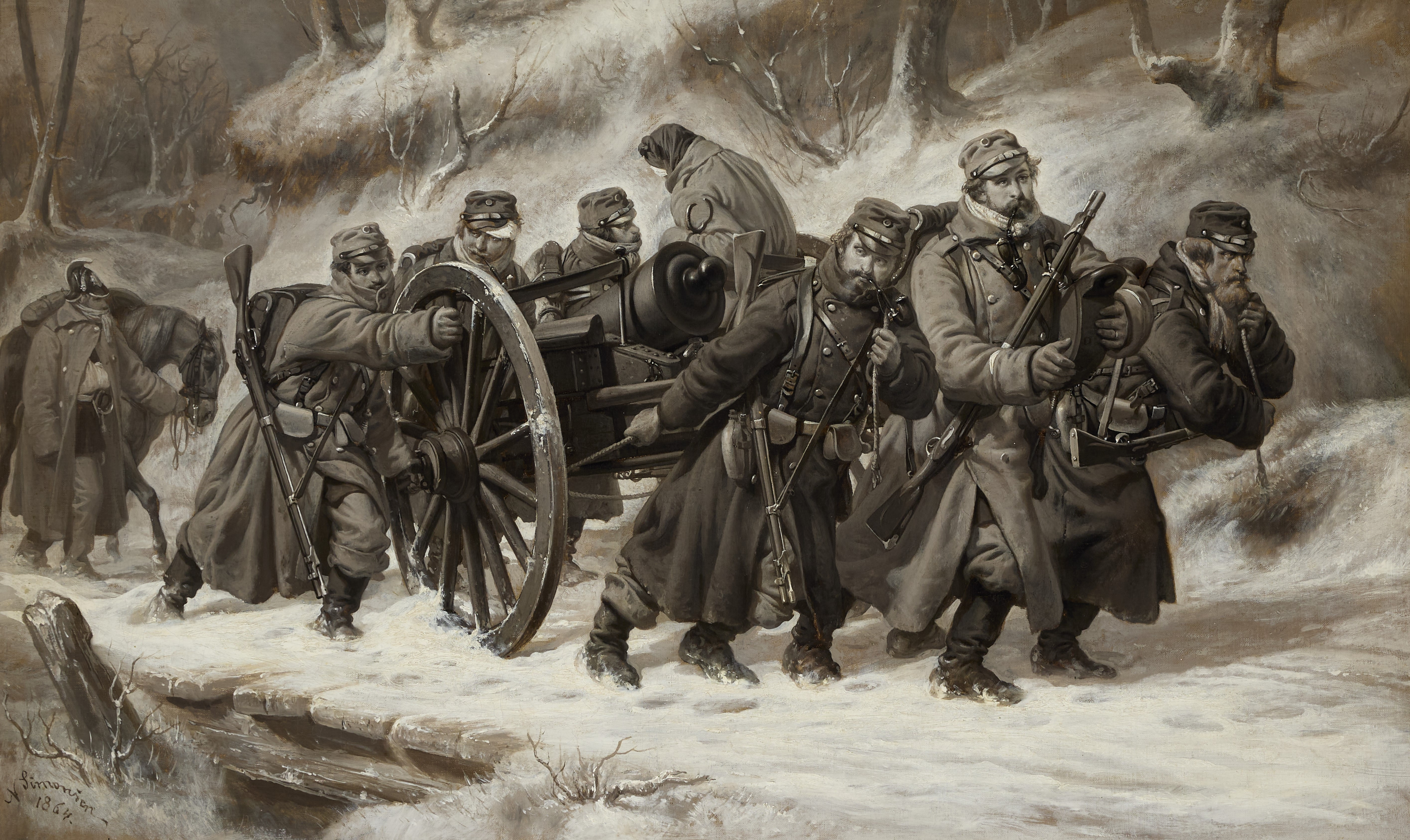 Episode of the retreat from Dannevirke, 5 - 6 February 1864 - Battle of Sankelmark and Oeversee